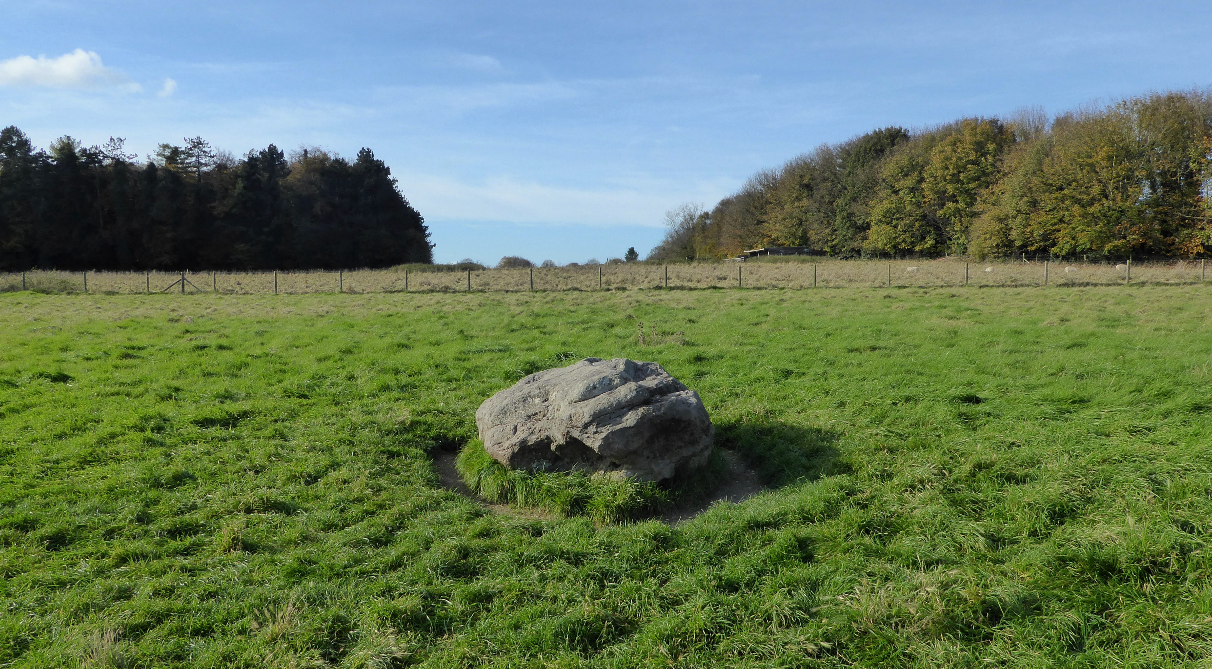 The Cuckoo Stone near Durrington, Wiltshire. The image is taken facing westward.